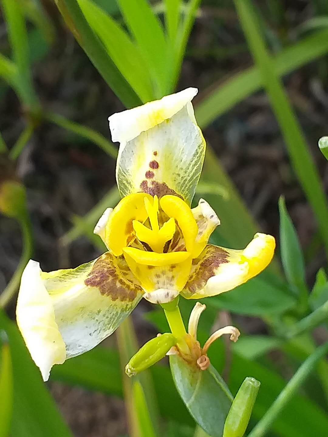 Trimezia steyermarkii. 2018 Taichung World Flora Exposition, Taiwan.